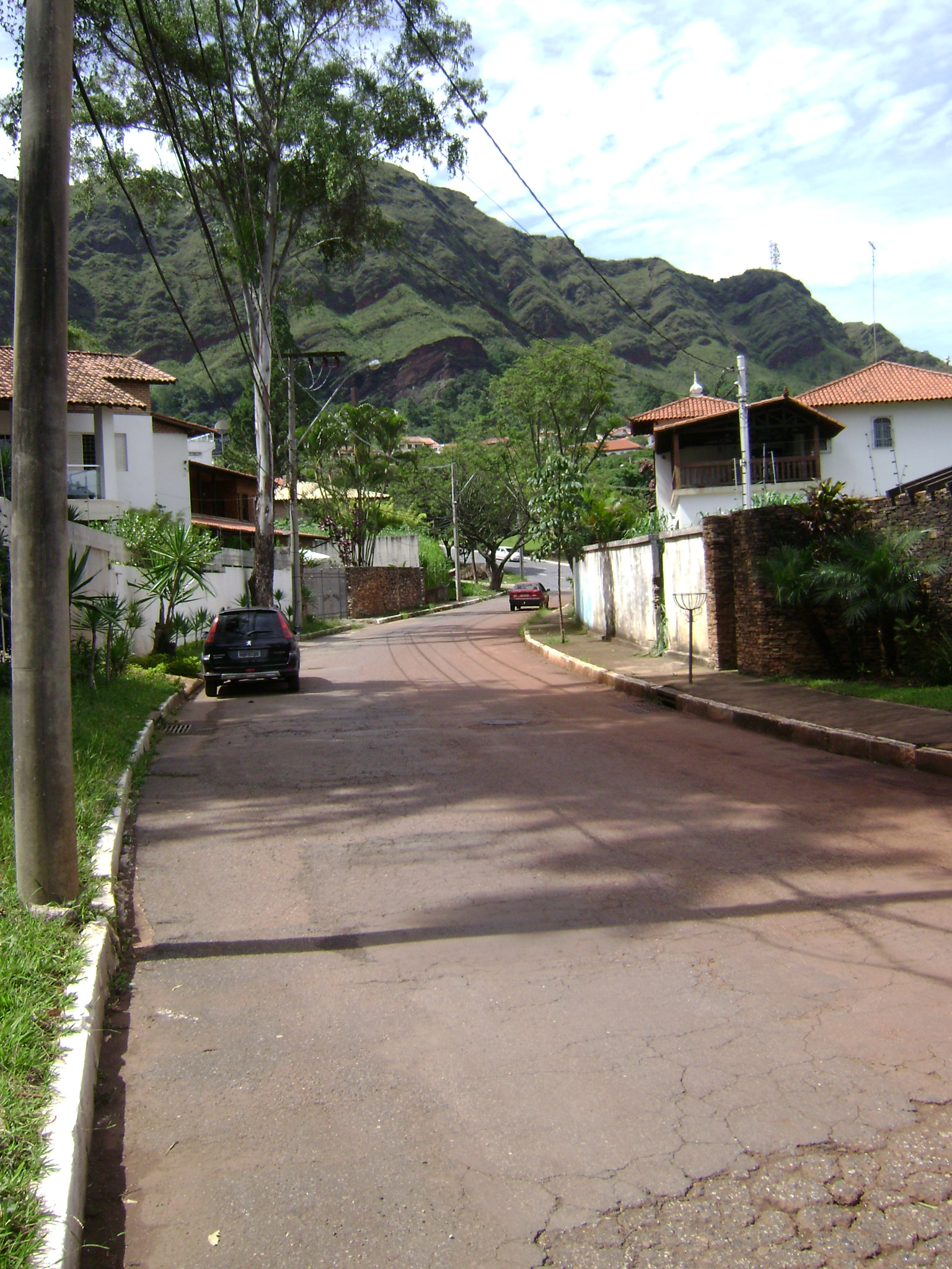 Rua do Amendoim, Belo Horizonte